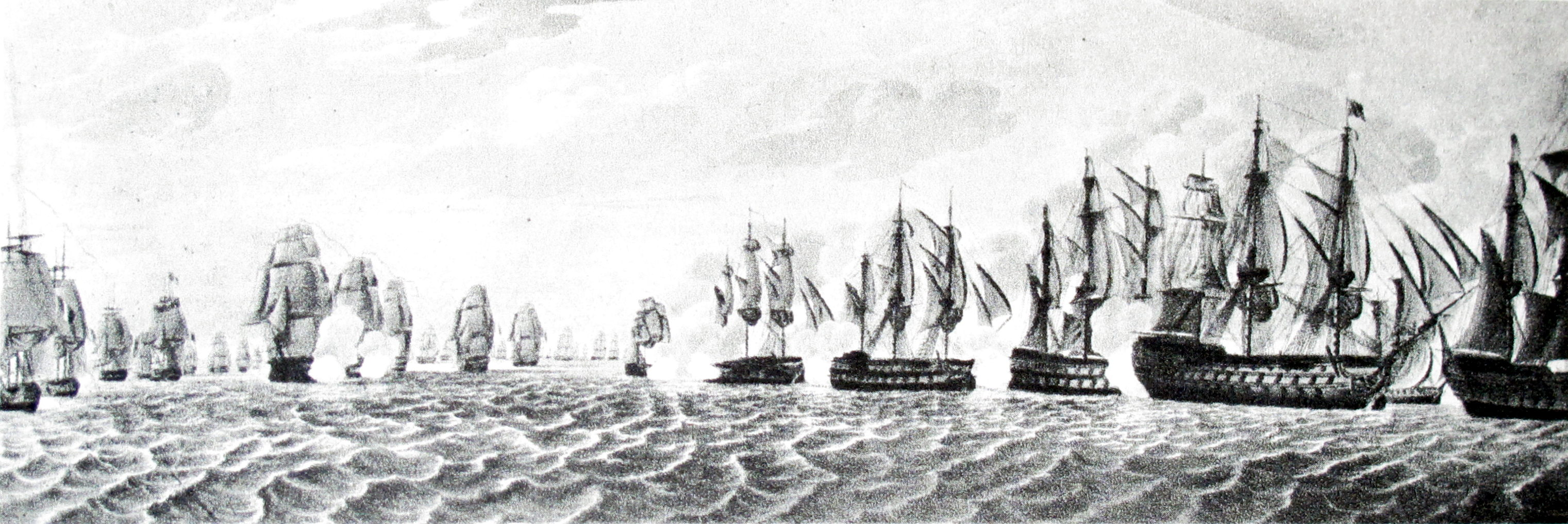 First phase of Admiral Cornwallis's fight: the two squadrons fight each other 1 2 3